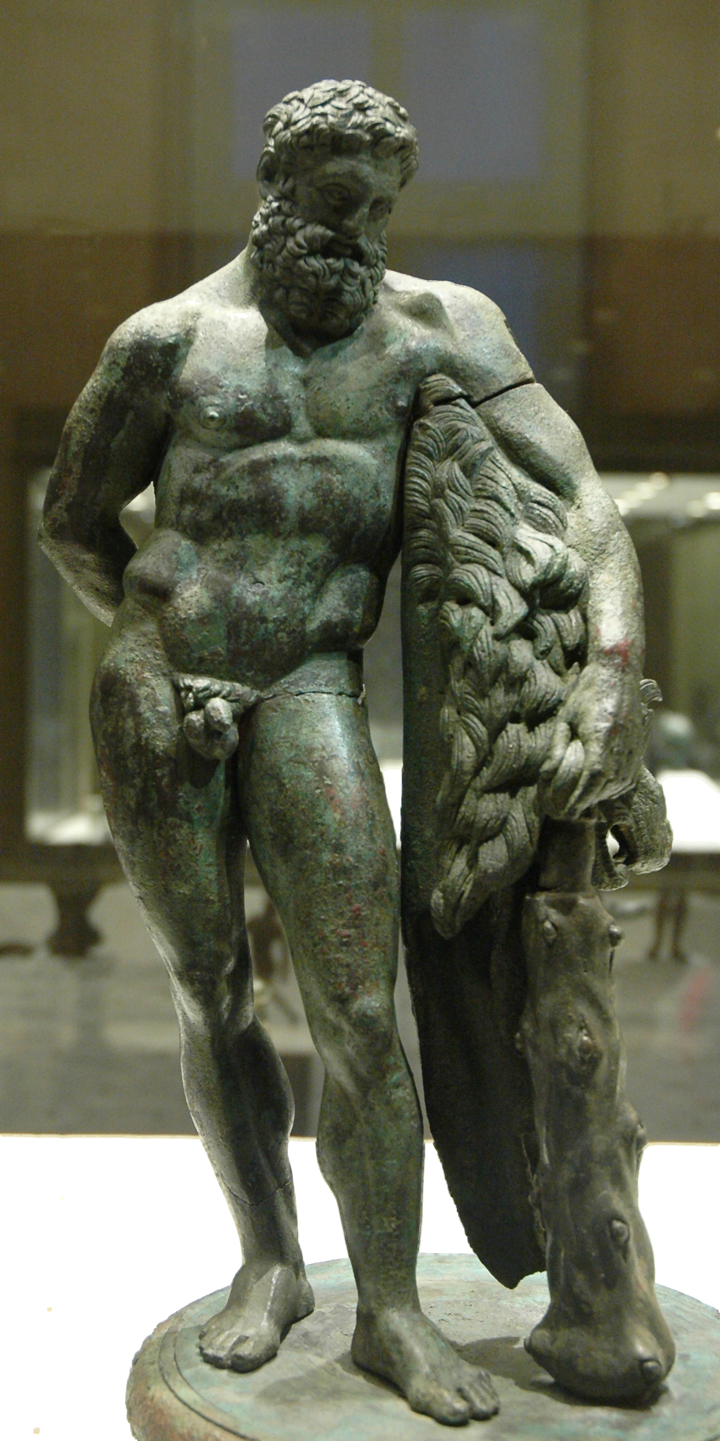 Heracles of the Farnese type, 3rd century BC or Imperial Era Roman copy from an original by Lysippos. Bronze statuette found in Foligno, Italy.